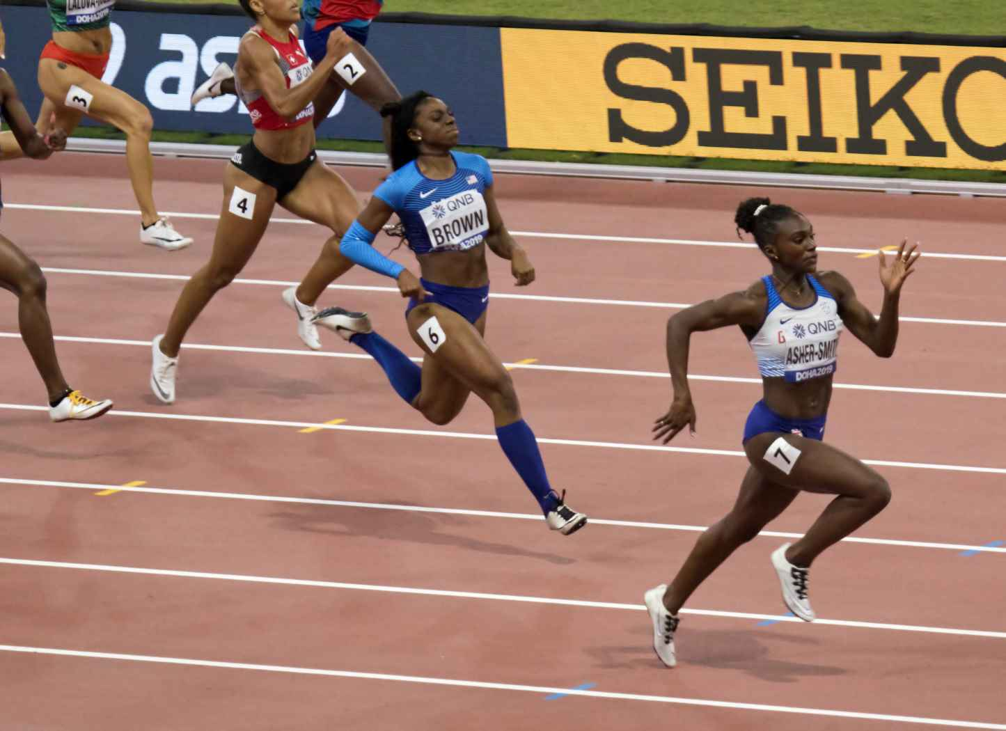 DOH60224 200m women final asher-smith brown